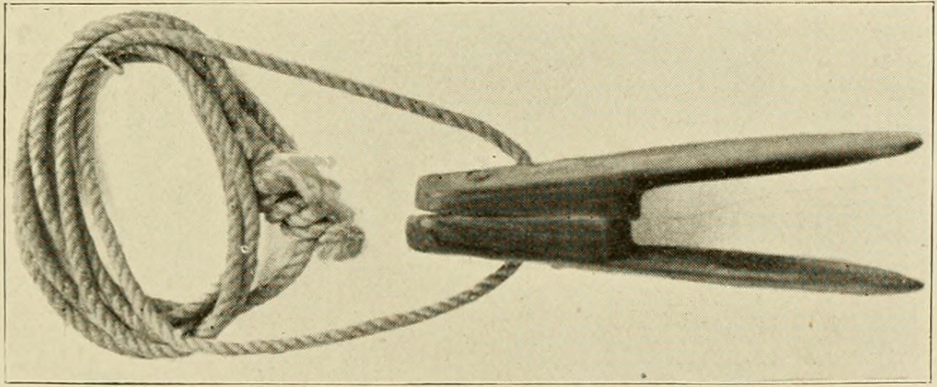 Nose pincers used by divers in Abd al Kuri in 1898 from The Natural History of Socotra and Abd-el-kuri